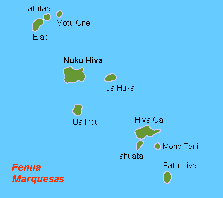 Map (rough) of the Marquesa Islands, French Polynesia, own work composed from various mapreferences